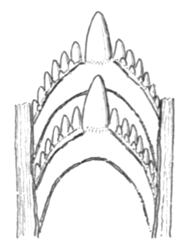 Two rows from radula of Fiona pinnata. Each row consist of only one denticle, so there are viewed only two denticles.